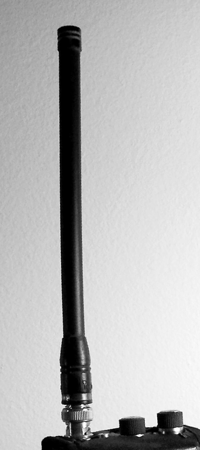 Rubber duck antenna on a walkie-talkie portable radio. It consists of a springy helix of wire, covered by the black rubber sleeve. The inductance of the helix serves as an integrated loading coil for the antenna, allowing the antenna to be made shorter than an ordinary whip antenna and still be resonant. The rubber ducky is the most common type of antenna on walkie-talkies.